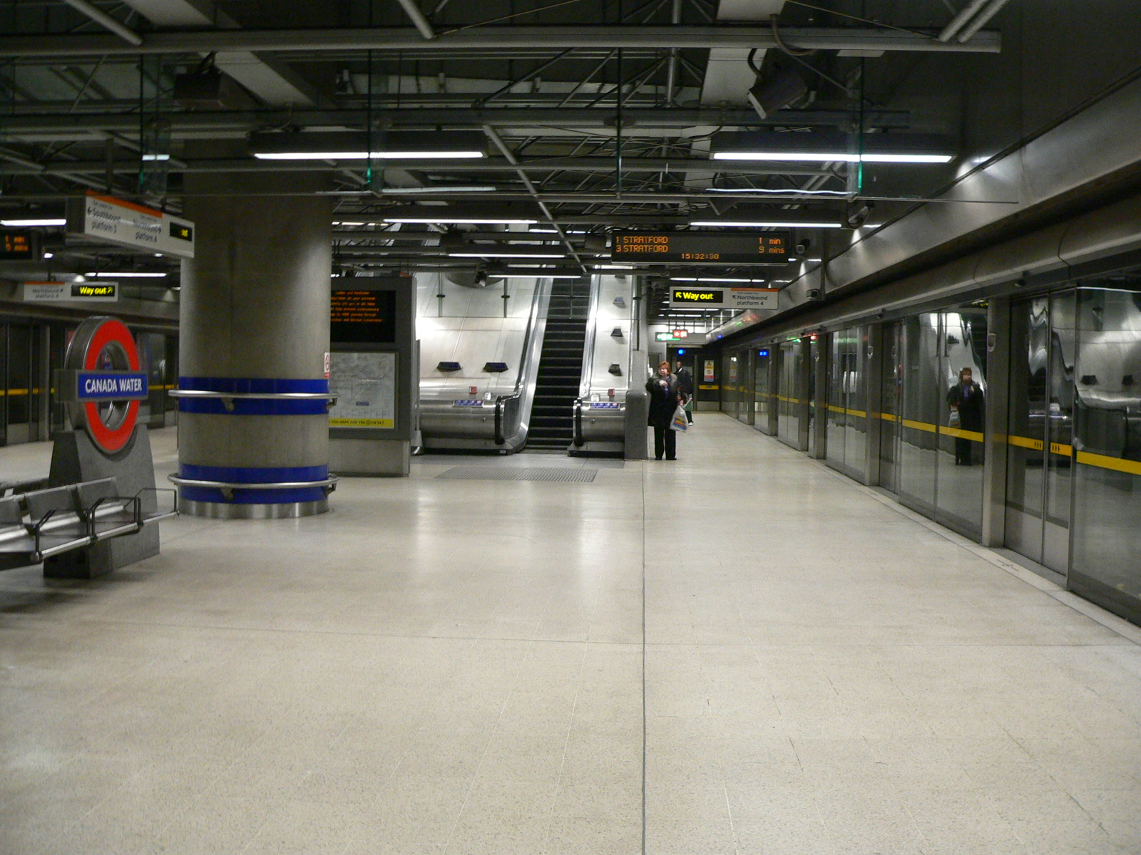 The central circulating area and eastbound Jubilee Line platforms at Canada Water tube station. The glass wall to the right contains the platform screen doors that protect the eastbound tracks. The escalator leads up to the northbound East London Line and the exit; the southbound East London Line is accessed via escalators furhter along the platform.